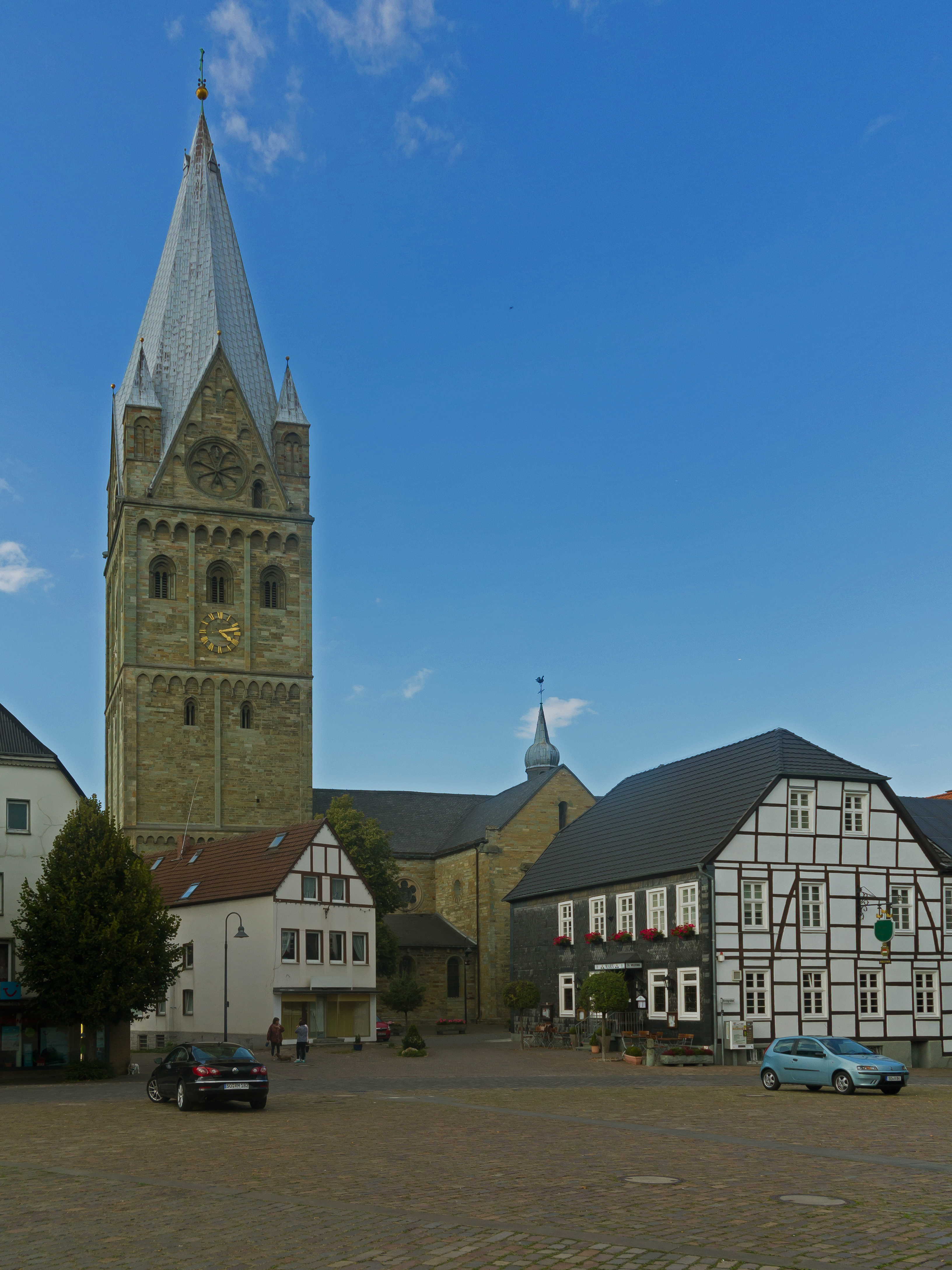 Erwitte, church: die Sankt Laurentius Kirche This is a photograph of an architectural monument.